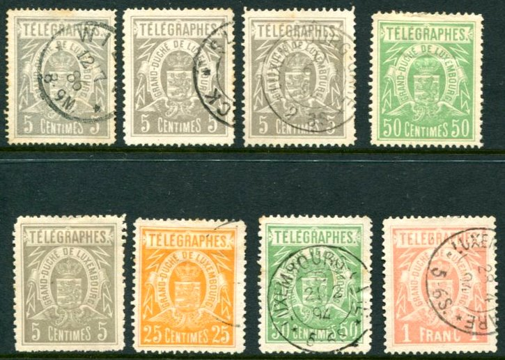 Luxembourg telegraph stamps 1880s and 1890s.